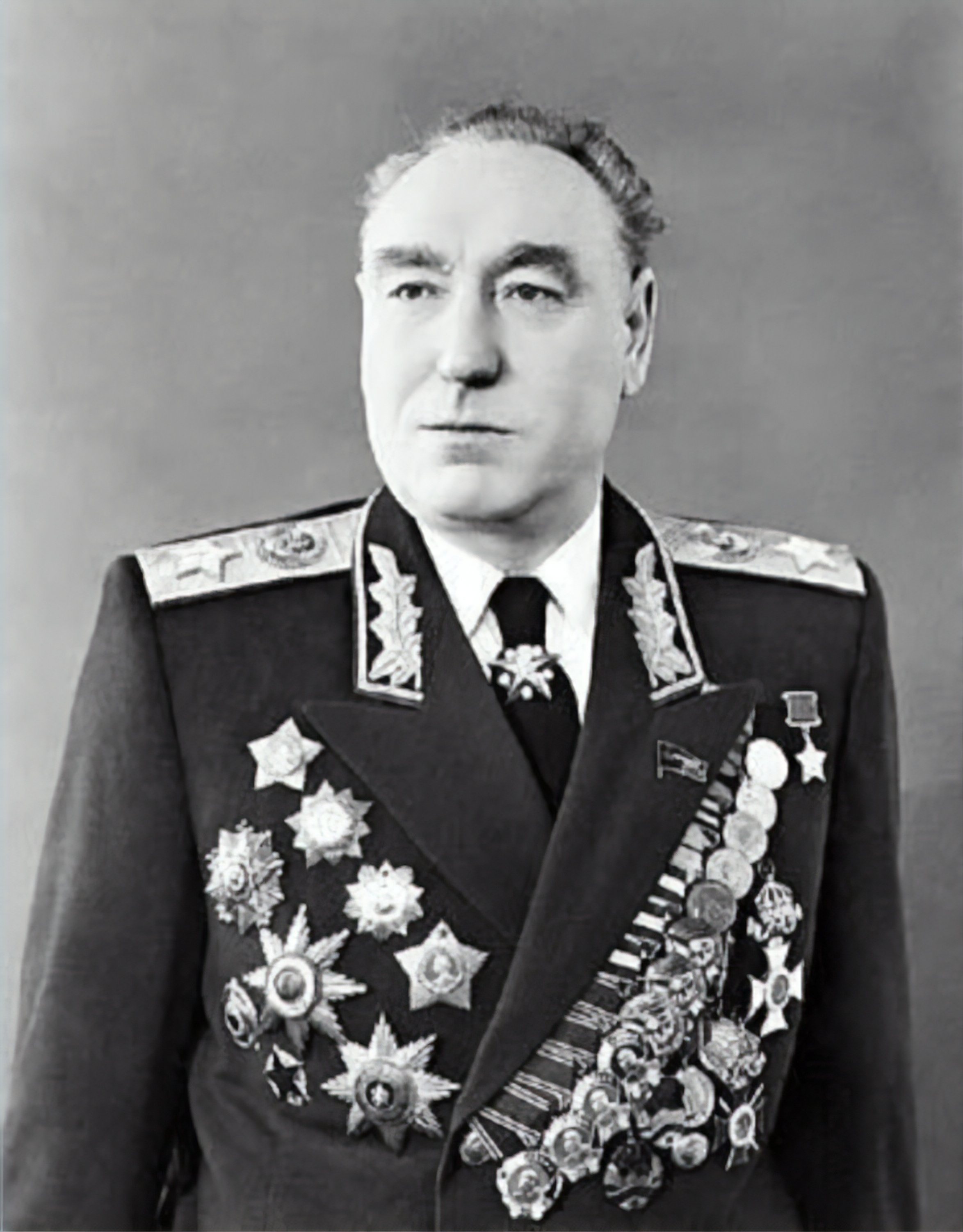 Sergey Semyonovich Biryuzov (1904 - 1964) - Soviet military commander, Marshal of the Soviet Union